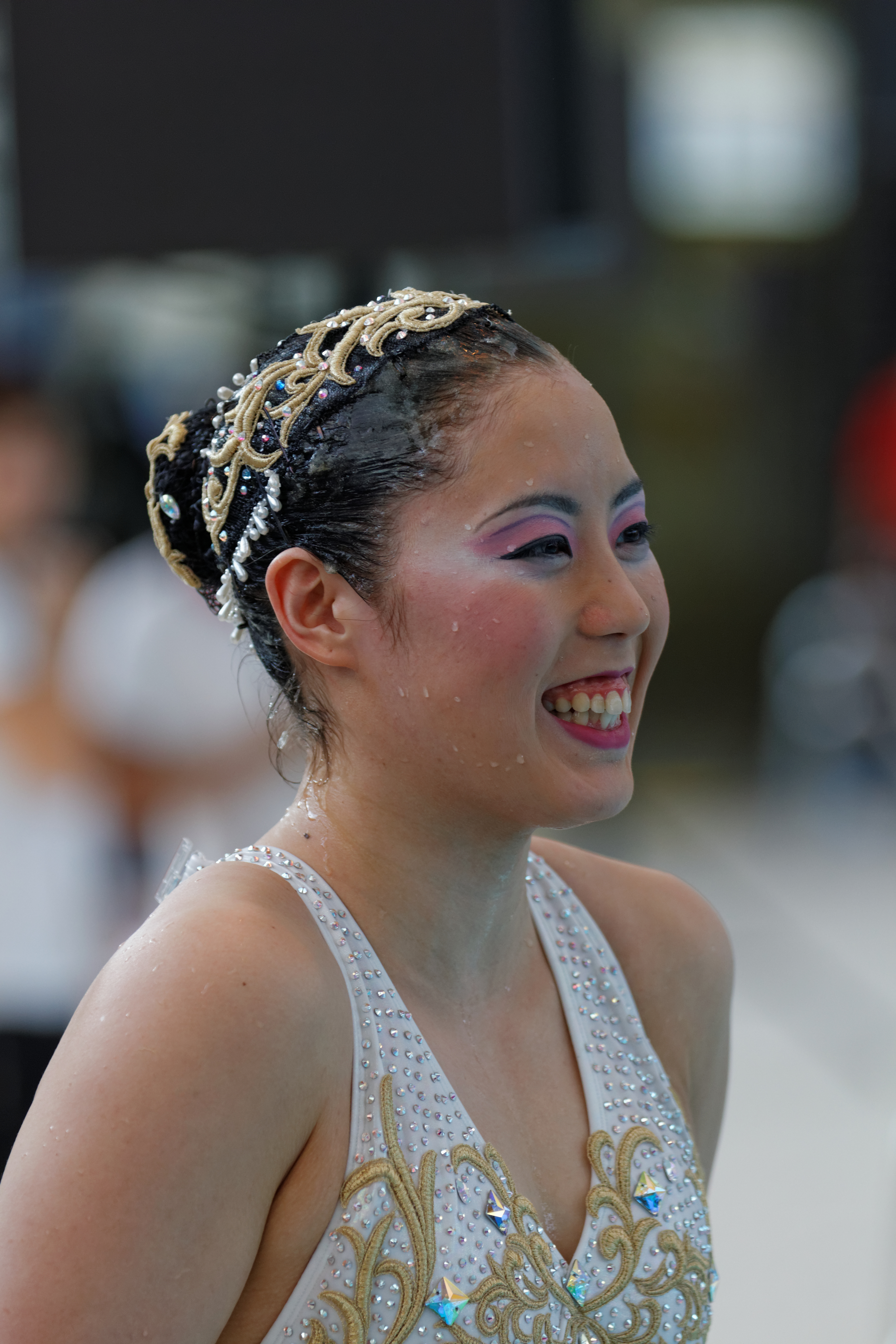 The Japanese synchronized swimmer Yukiko Inui during the free solo routine at the French Open in Montreuil, March 15, 2013.